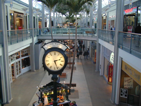 Mall of Columbia interior Photo by uploader, released to public domain